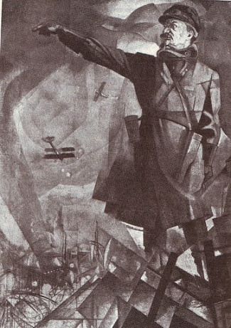 Cubo-futurist portrait of Trotsky as commander of the Red Army